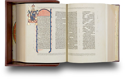 Kennicott Bible, folios 184v-185r - King David depicted as the king of clubs, possibly copied from The Master of the Power of Women, a set of Spanish playing cards.